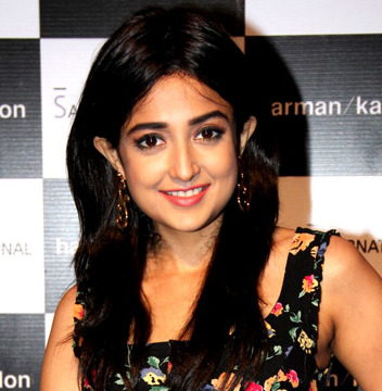 Thakur grace the launch party of luxury audio brand 'Harman Kardon'